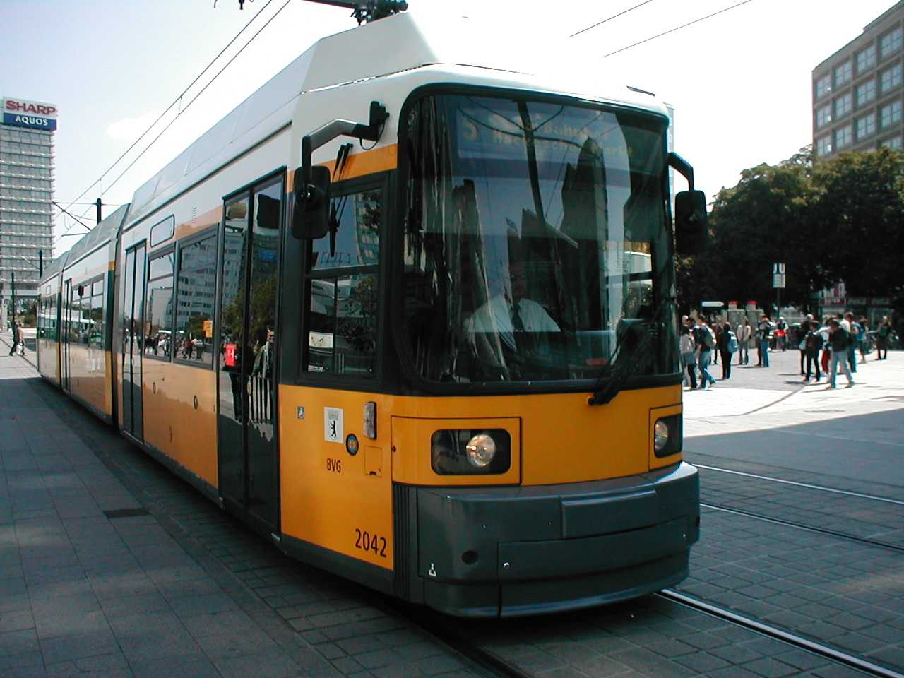 The Berlin tramway train type GT6N at Alexanderplatz